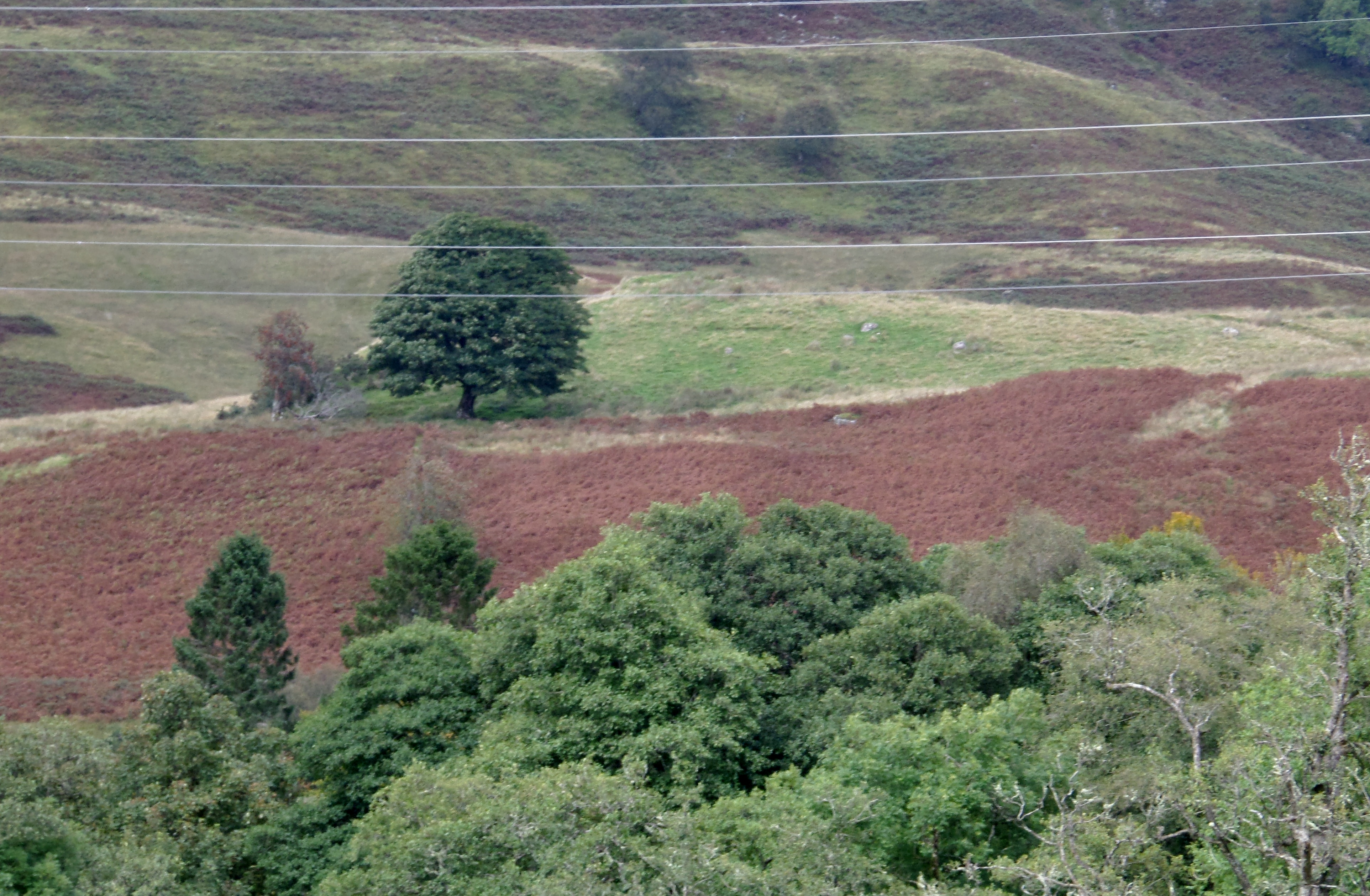 Tom Nan Croiche / Hill of the Gallows, Dalmally, Argyll & Bute, Scotland.